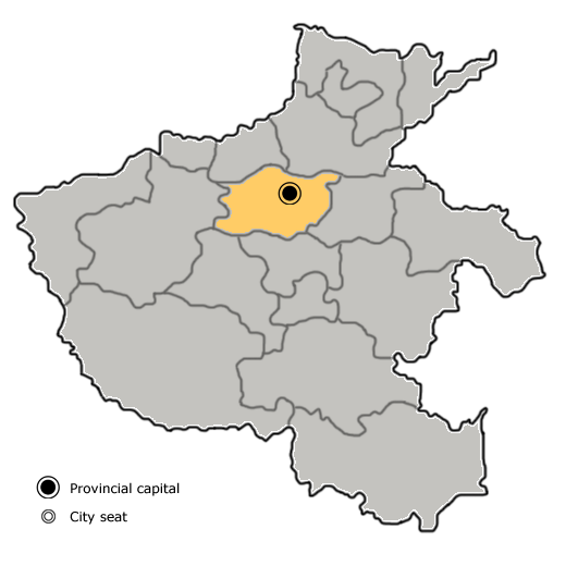 The prefecture-level city of Zhengzhou is highlighted on this map of Henan province, People's Republic of China.